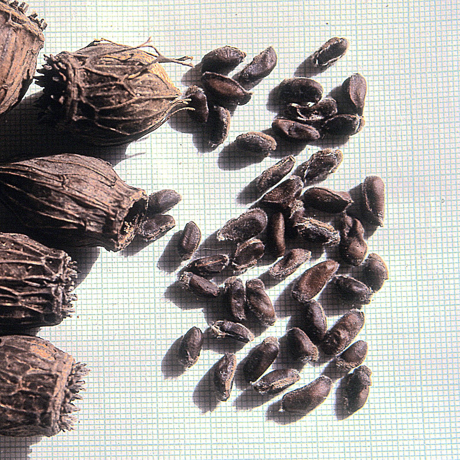 Calycanthus floridus hypanthiums and fruits